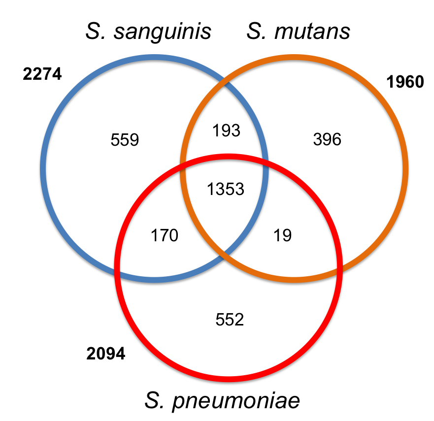 Shared and unshared genes among Streptococcus sanguinis, S. mutans, and S. pneumoniae